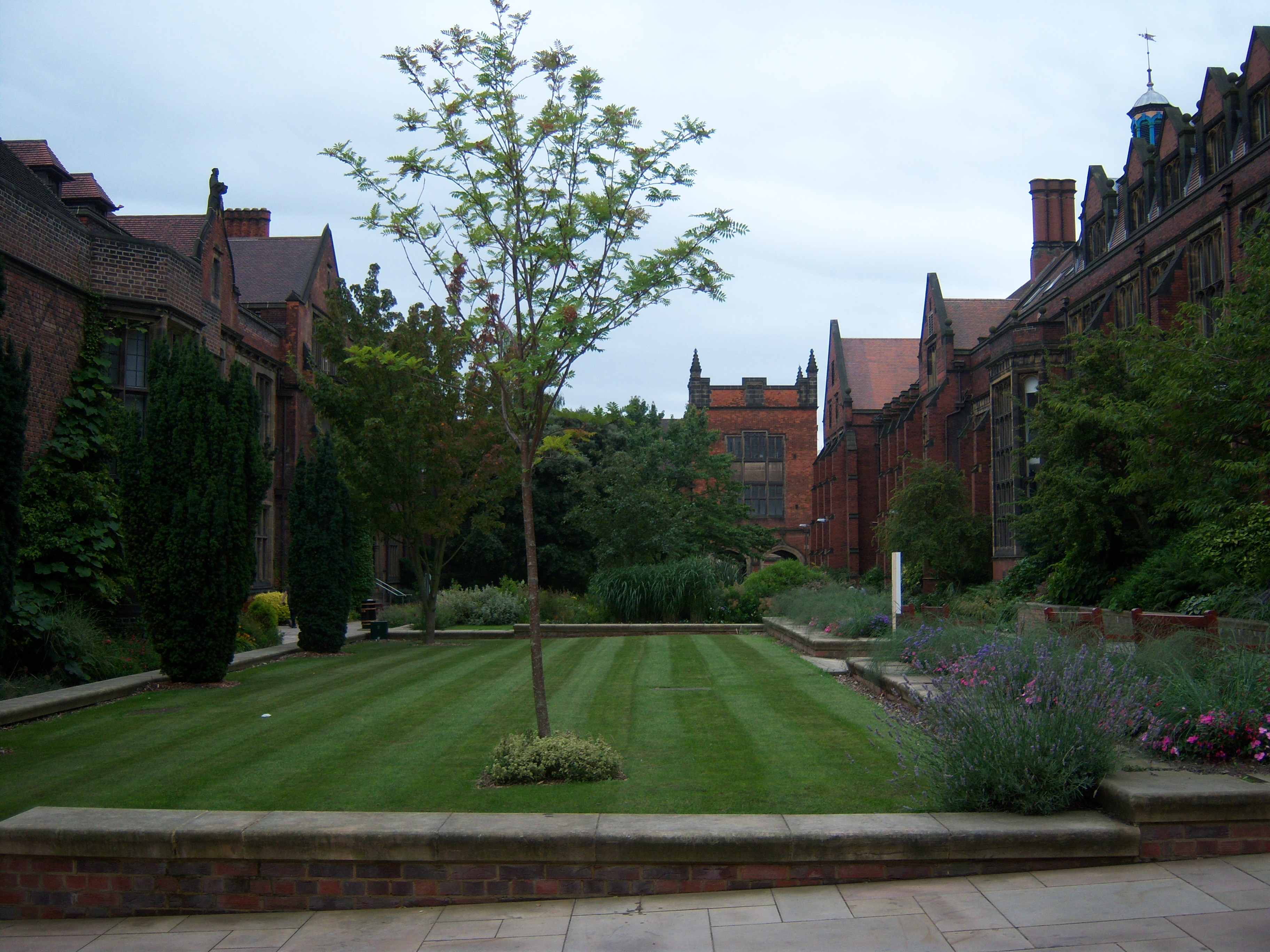 Old Quad, Newcastle University. NW end, looking SE.